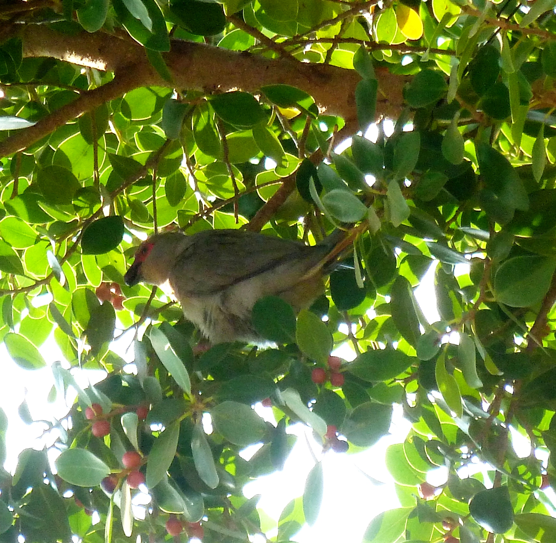 Red-faced Mousebird feeding on figs in a Chinese banyan tree. Tail is used for support as with a Woodpecker - the central tail feathers reach the top of the photo.